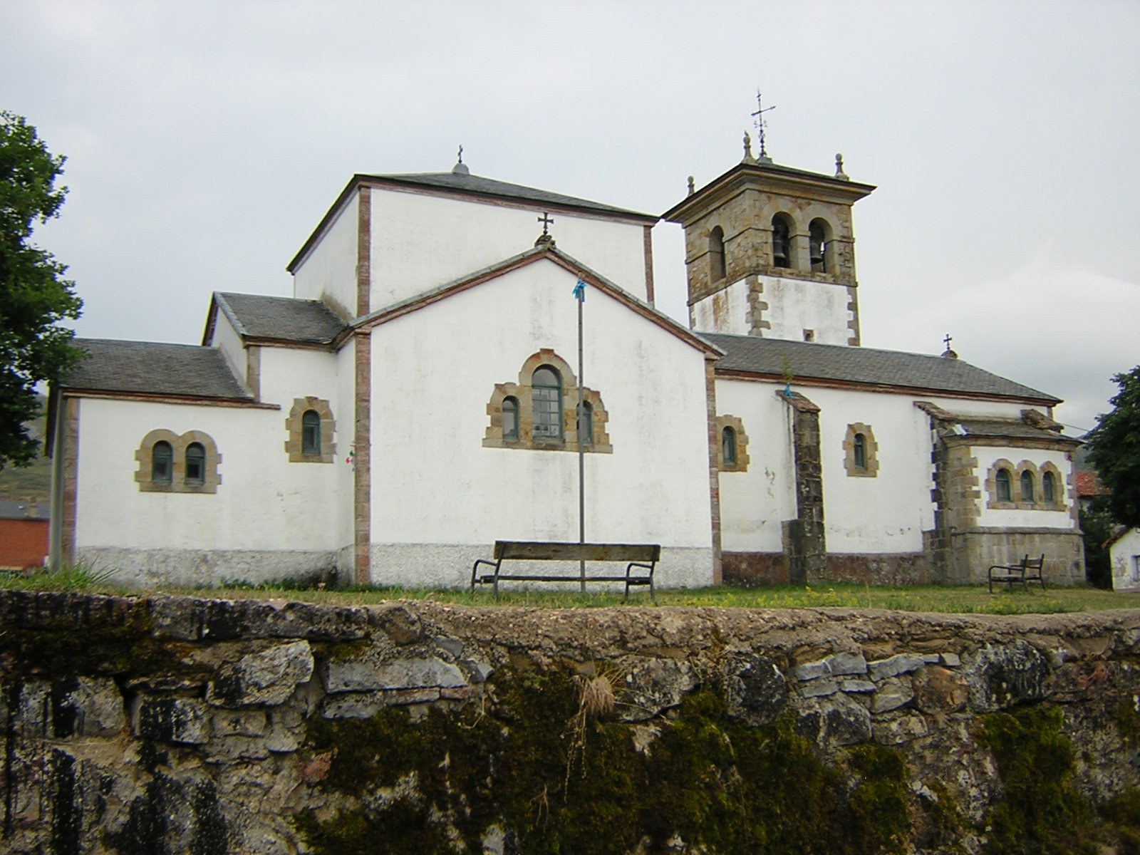 Church of Rodiezmo (Spain)